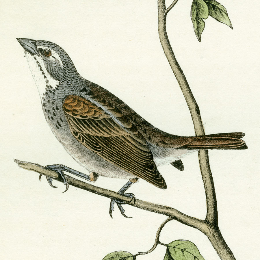 Hand-coloured lithograph (Plate 157) depicting Townsend's Bunting (Spiza townsendi) by J. T. Bowen, after J.J. Audubon